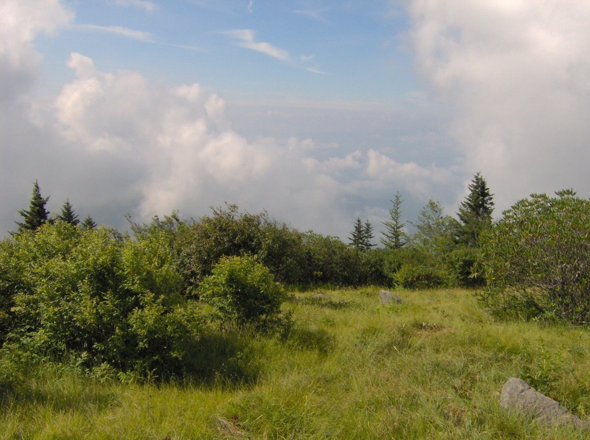 The bald area atop Andrews Bald (el. 5,920 feet/1,804 meters) in the Great Smoky Mountains. Andrews Bald is one of two grassy balds (Gregory Bald being the other) maintained as a grassy bald by the National Park Service.